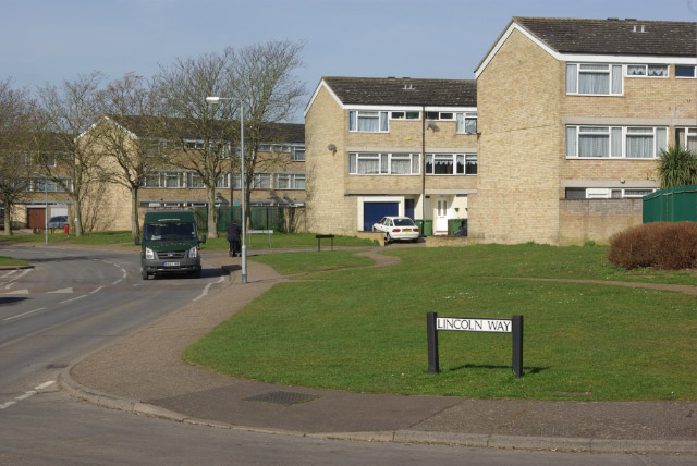 Abbey Farm, Thetford Looking along Canterbury Way which forms the spine of this Thetford housing estate; all the roads here are named after cathedral cities.